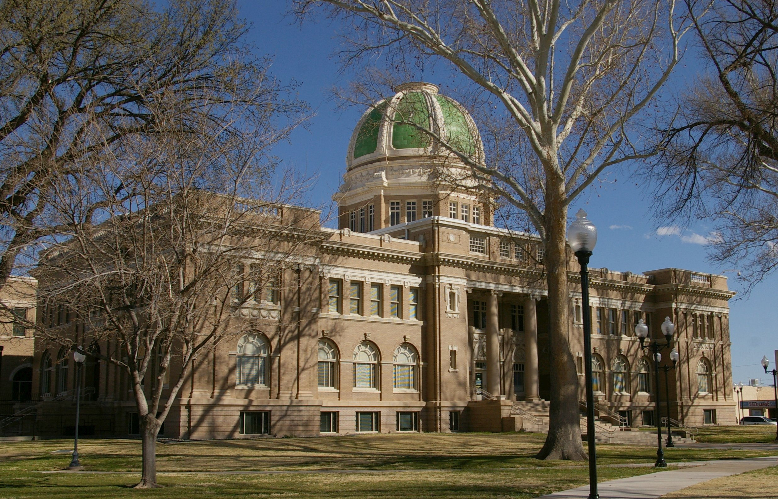 The Historic Chaves County Courthouse in Roswell, NM